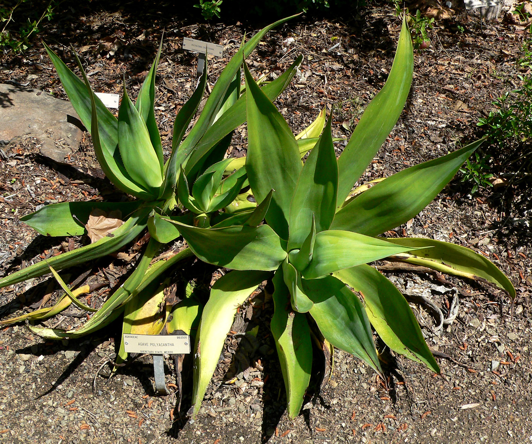 Agave polyacantha at the University of California Botanical Garden, Berkeley, California